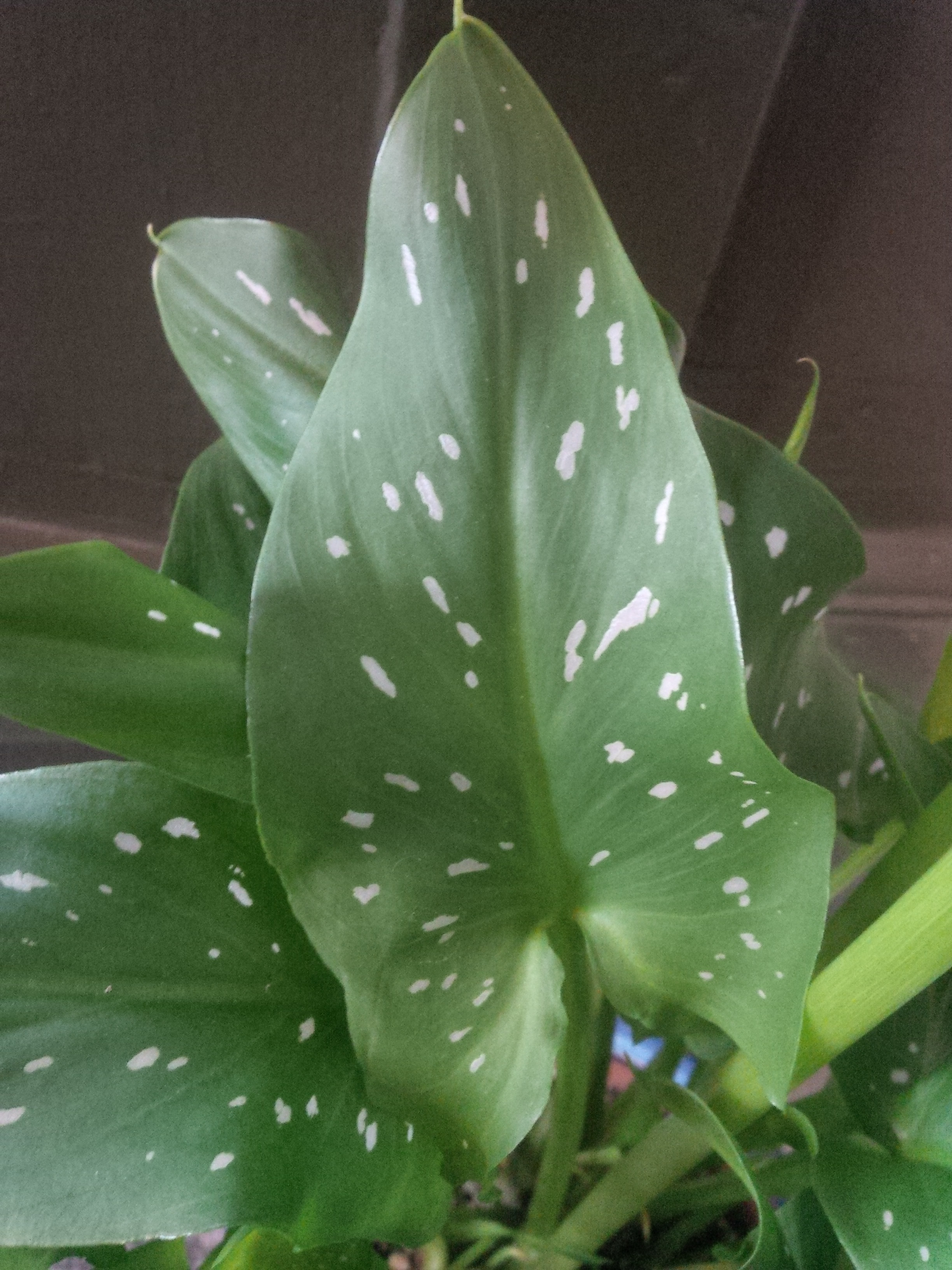 Leaves of Zantedeschia ellotiana x maculata 'Lemon Drop' showing hastate leaf shape